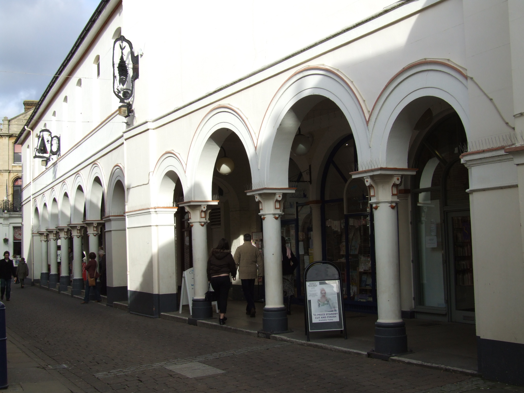 Corn Exchange theatre. Maidstone. - Google Maps - Google Earth